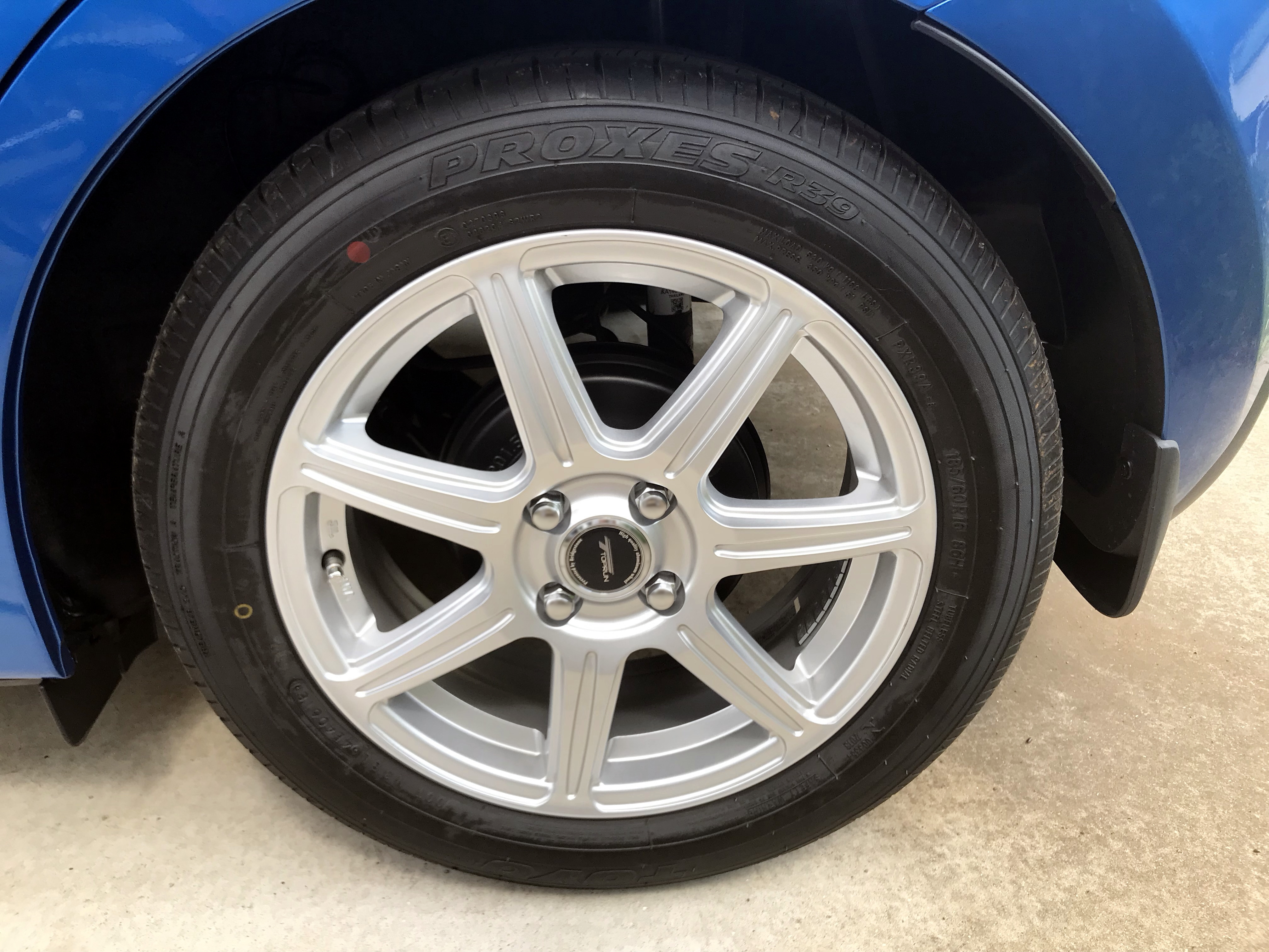 Toyo Tires Proxes R39A (185/60R16 86H), equipped on Mazda 2 / Demio Diesel (LDA-DJ5FS) with Bridgestone Toprun aluminum alloy wheel.